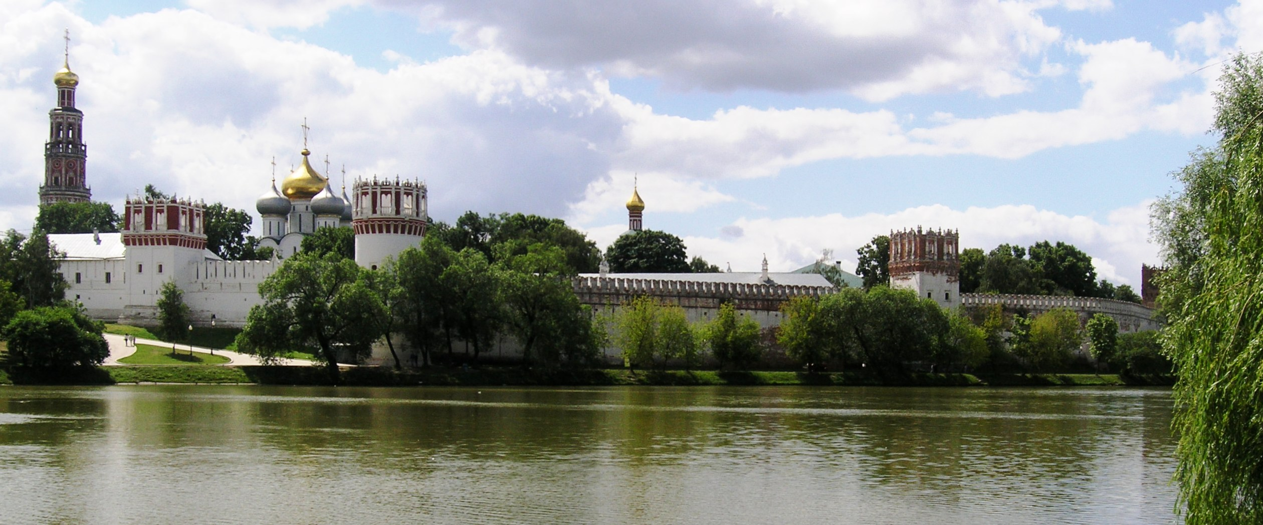 Novodevichy convent